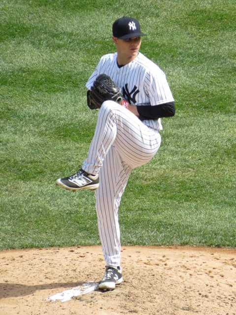 Sonny Gray Pitching for the New York Yankees.